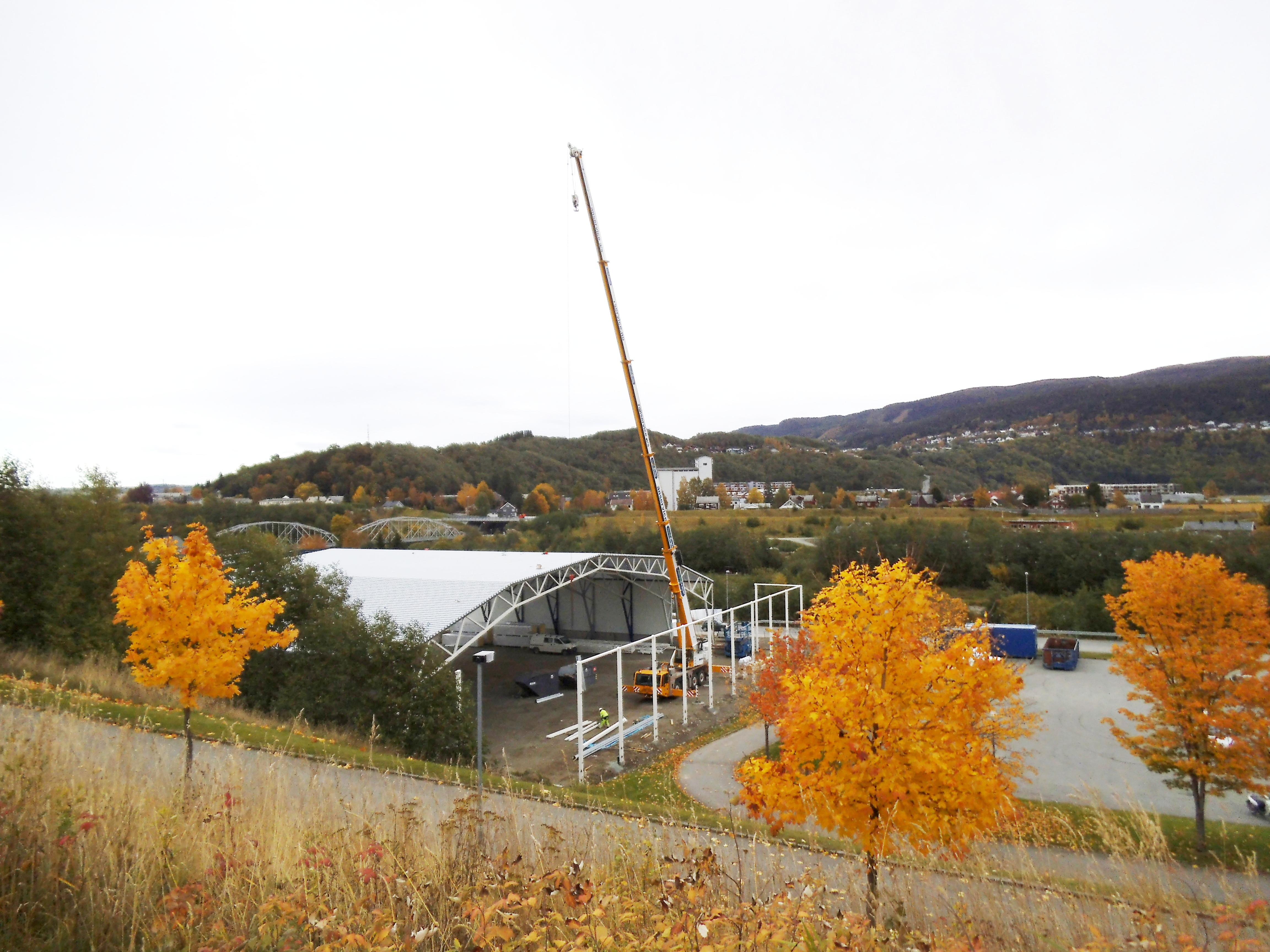 Bankhallen, an indoor sports arena in Melhus. Under construction. October 2012.